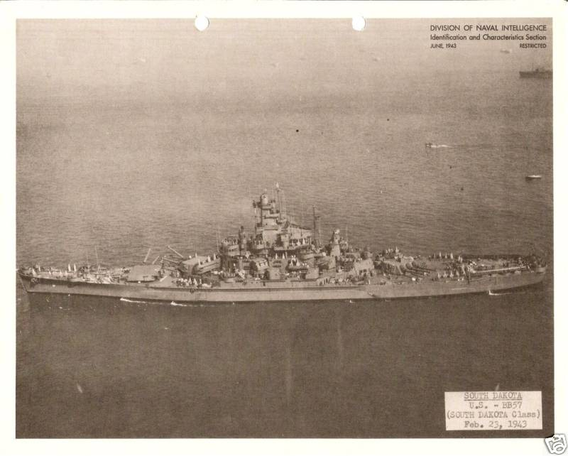 A June 1943 Division of Naval Intelligence, Identification and Characteristics section print of a 23 February 1943 photo of USS South Dakota (BB-57).